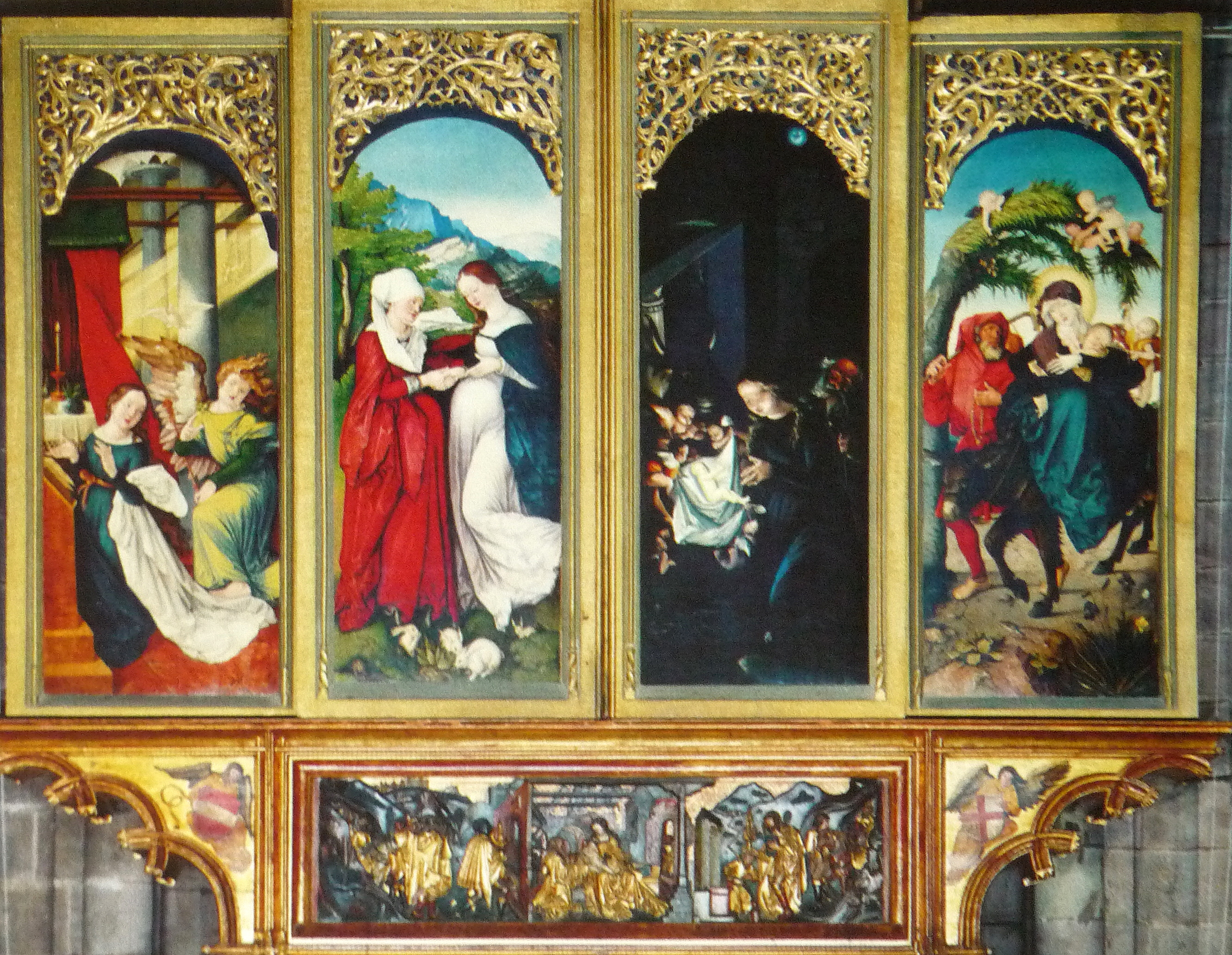 Hans Baldung, high altar in Freiburg Minster